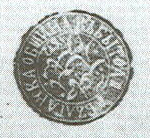 Seal of bulgarian exarch church in Bitola from 1868